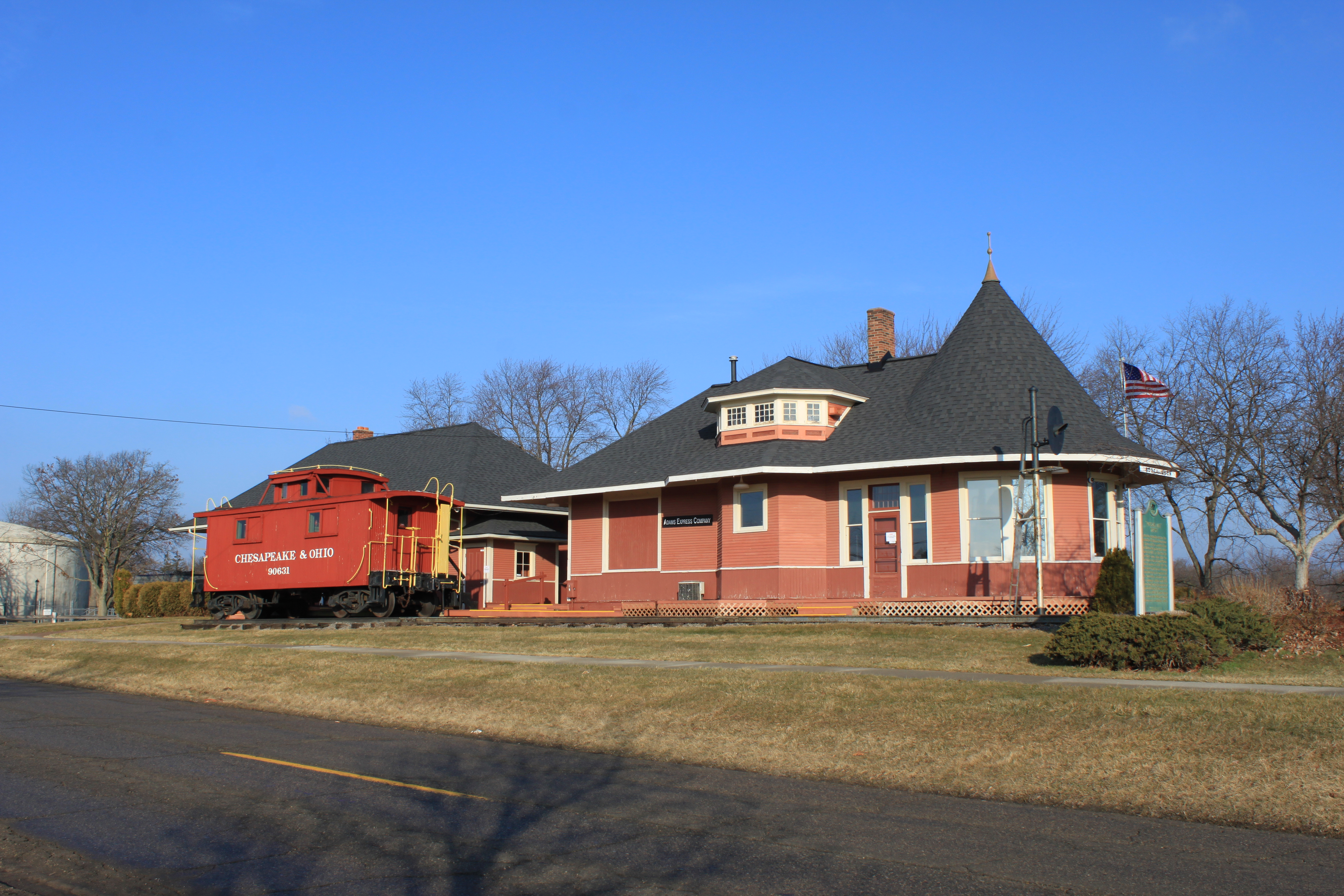 Witch's Hat Depot historic site, McHattie Park, 300 Dorothy Street, South Lyon Michigan. The depot is a Registered Michigan State Historic Site and was built in 1909.